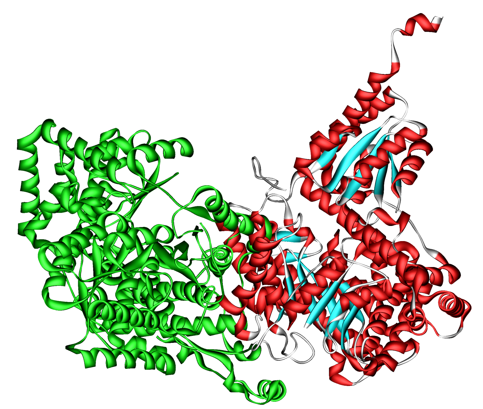 3d ribbon model of L-methylmalonyl-CoA-mutase (MUT, MCM) dimer from PDF 3BIC. Ref.: Ugochukwu, E., Kochan, G., Pantic, N., Parizotto, E., Pilka, E.S., Pike, A.C.W., Gileadi, O., von Delft, F., Arrowsmith, C.H., Weigelt, J., Edwards, A.M., Oppermann, U. Crystal structure of human methylmalonyl-CoA mutase. To be Published